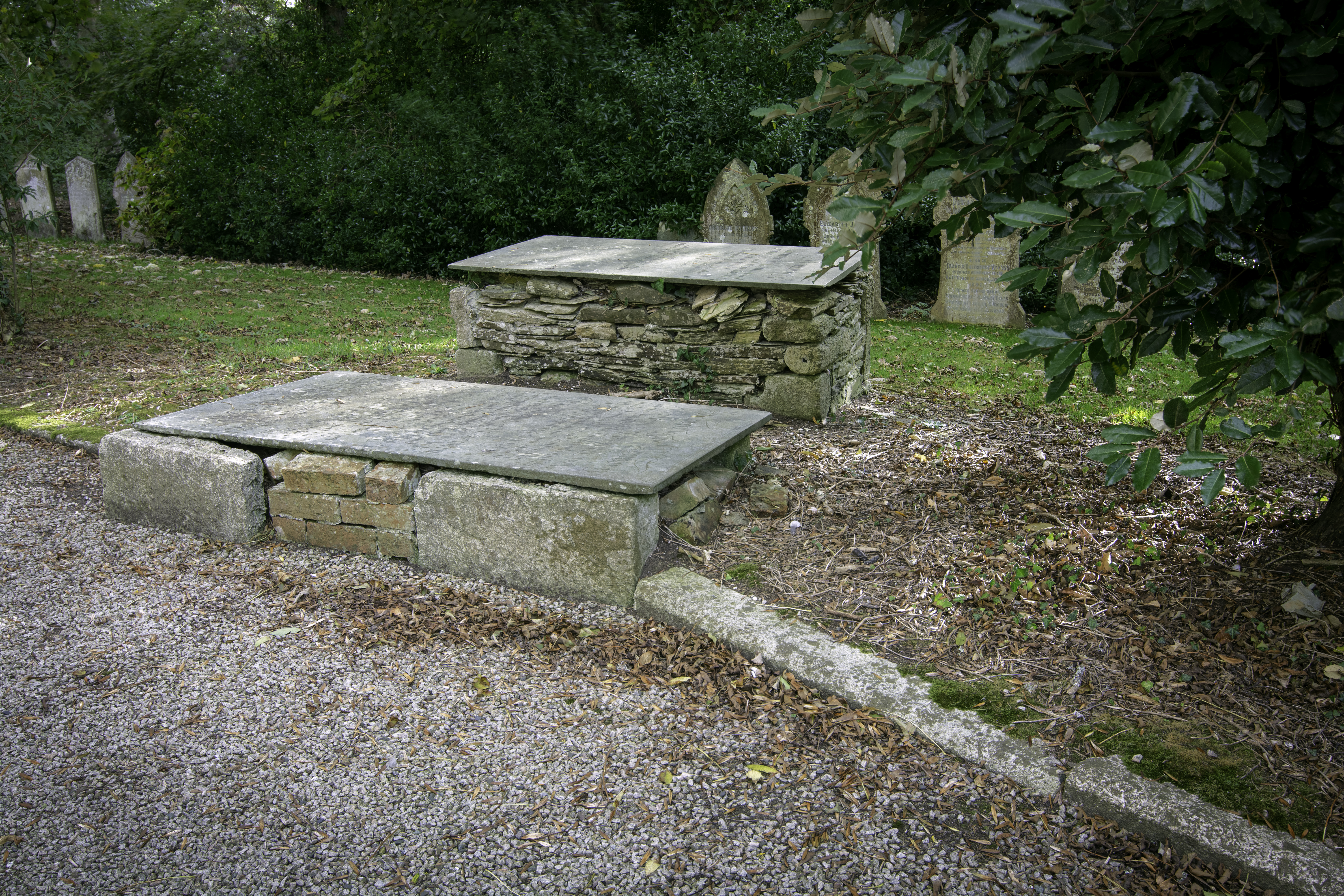 Two Trethewy Monuments In Churchyard, Approximately 5 Metres South Of Tower, Church Of St Hermes Wikidata has entry Q26434209 with data related to this item.